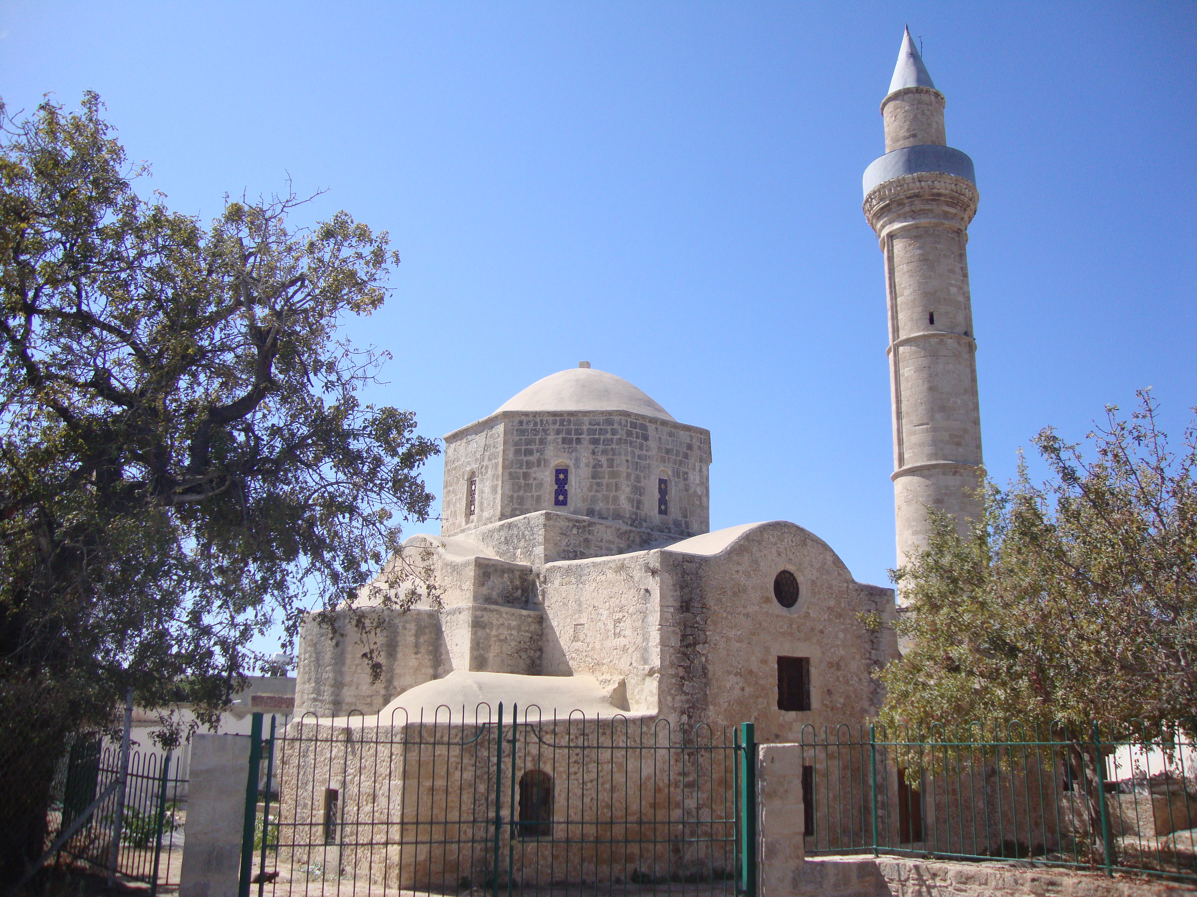 Mosque in Paphos, Cyprus, 09.2013